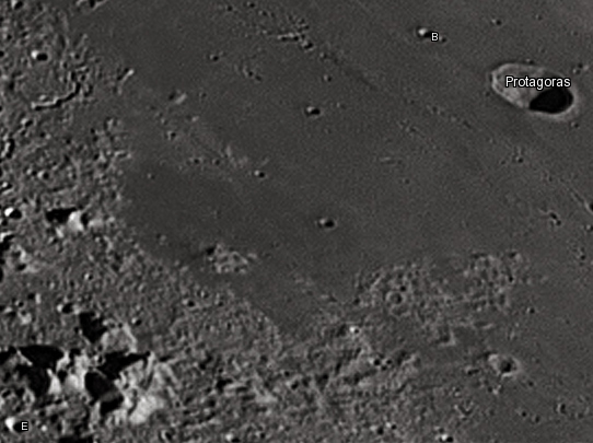 Protagoras lunar crater as seen from Earth with satellite craters labeled